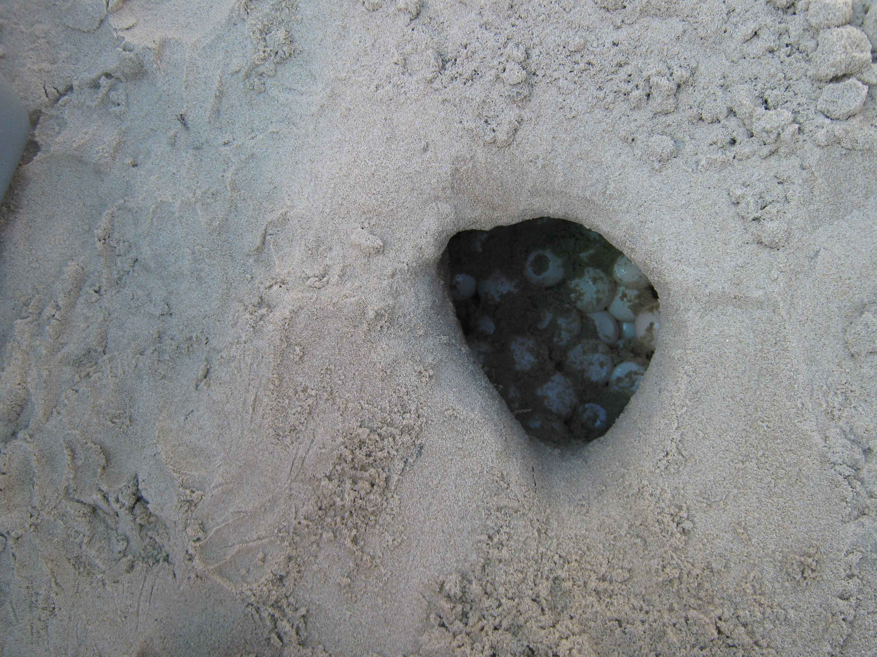 Image title: Sea turtle nest Image from Public domain images website